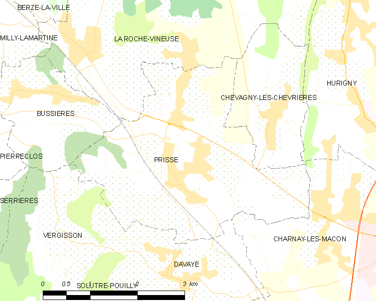 Map of French municipality